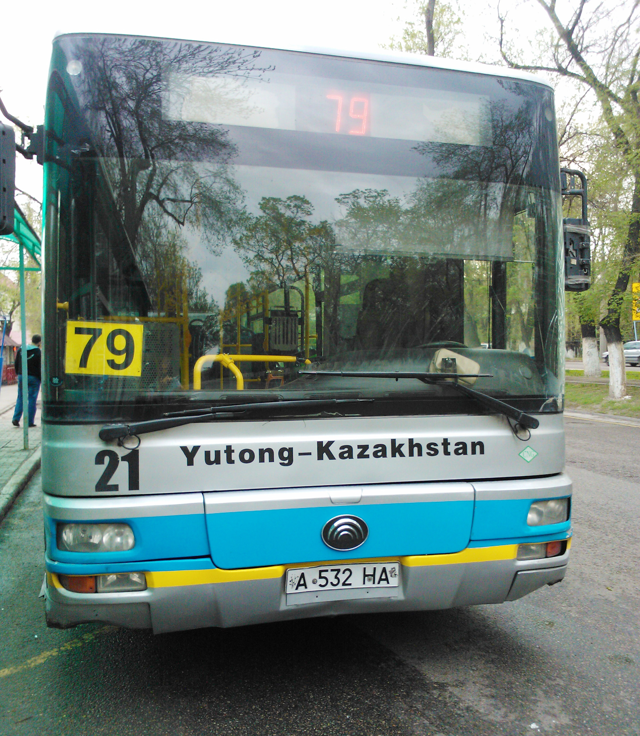 Yutong city bus in Almaty; Kazakhstan.Српски (ћирилица): Кинески градски аутобус Јутонг у казахстанском граду Алмати.